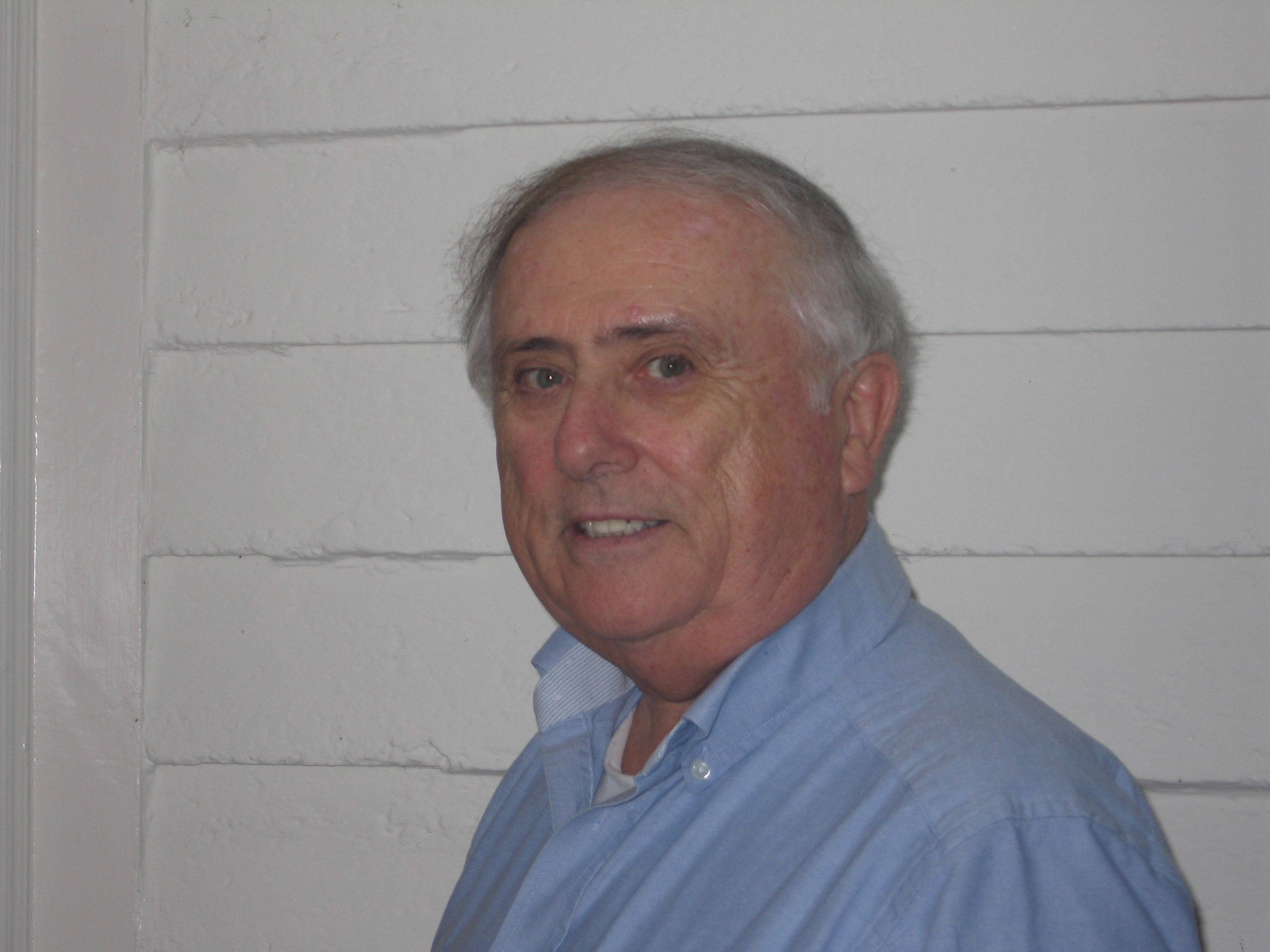 Image of Michael Aldrich.